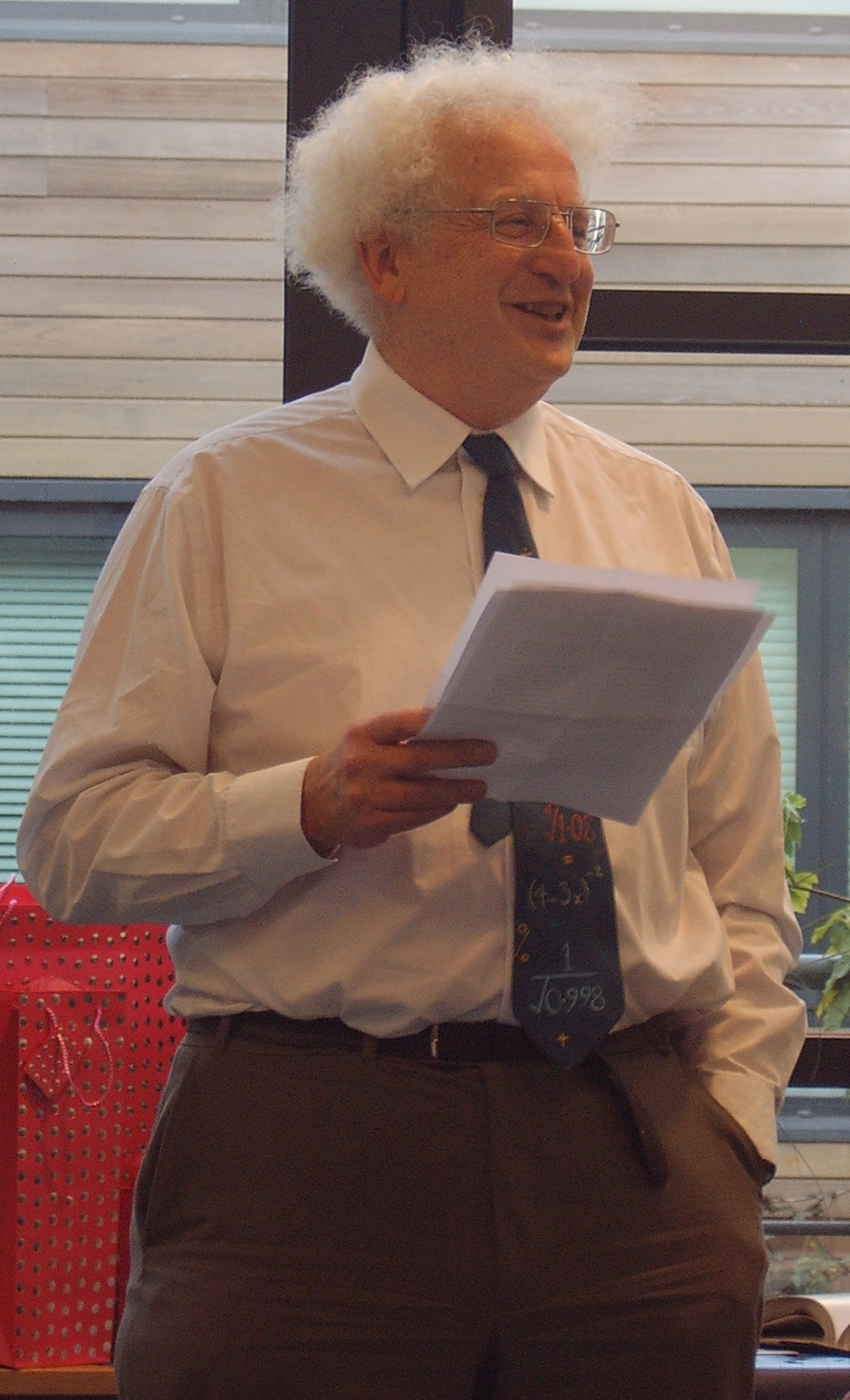 Photograph of the British mathematician David Epstein.